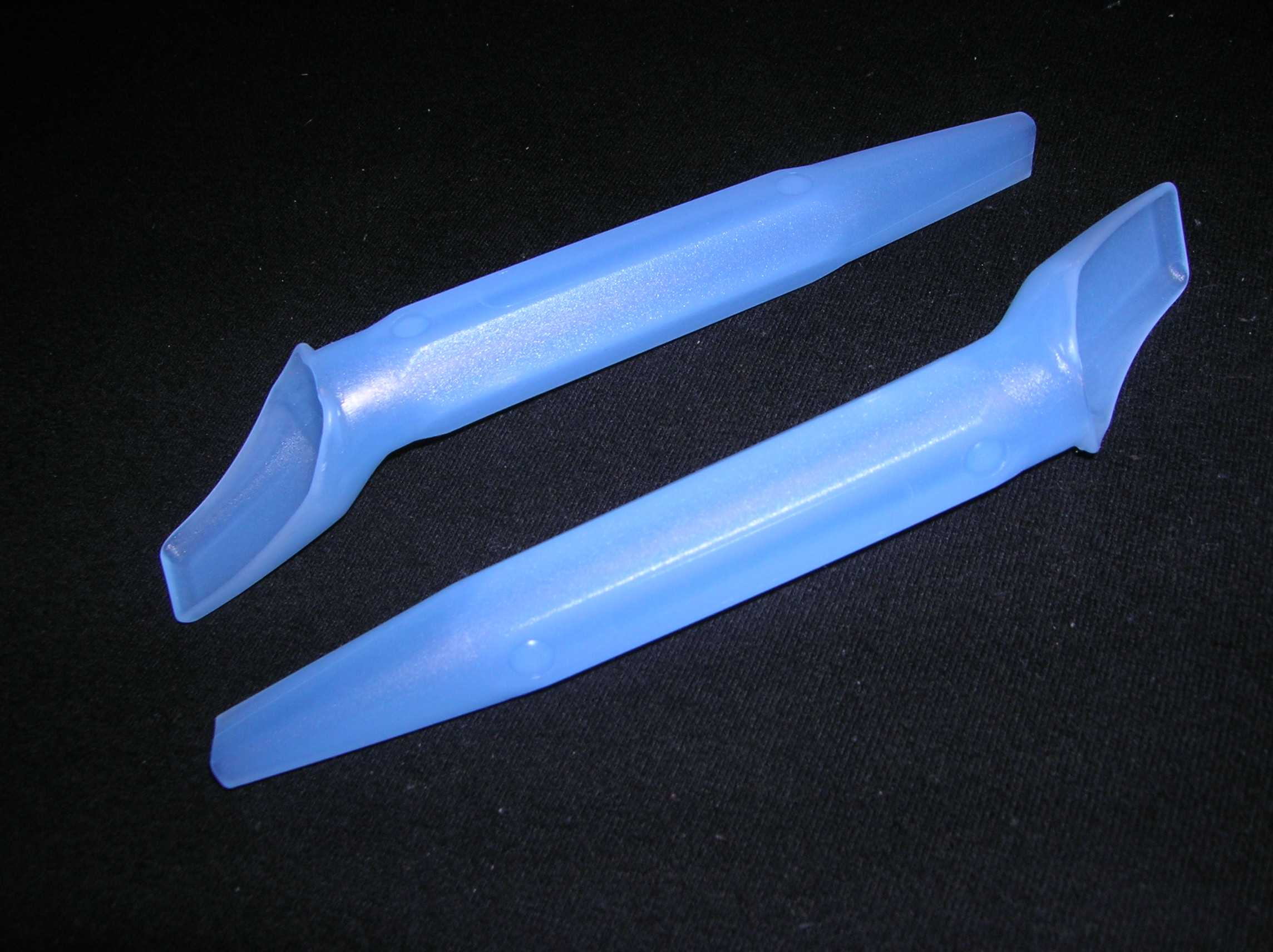 Travelmate peeing tool for women